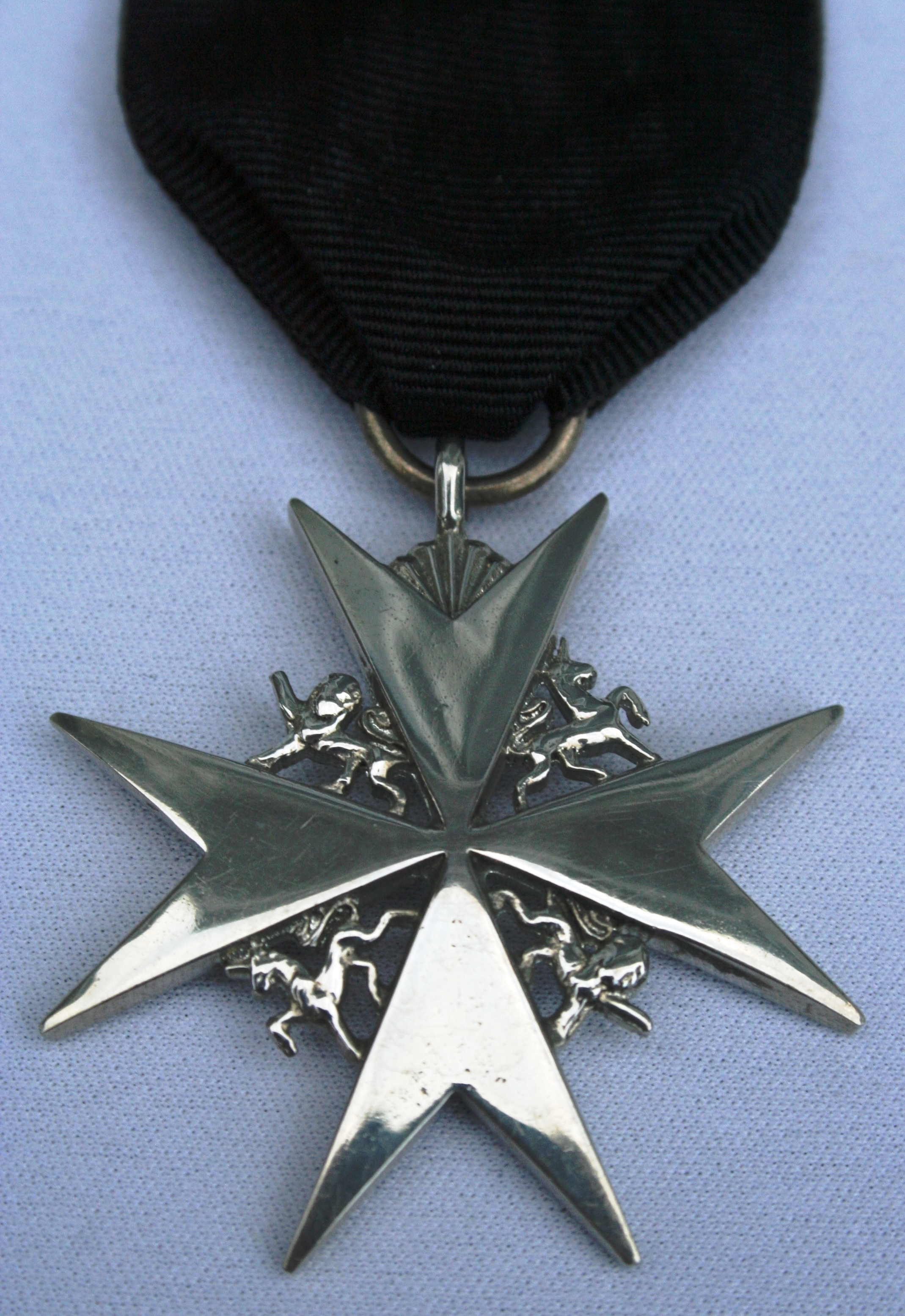 This is an image of the badge of a member of the Most Venerable Order of the Hospital of St John of Jerusalem. Those in Grade V of the Order used to be called serving brothers and serving sisters and used the same badge after 1949. This image comes from my personal collection of St John Insignia.